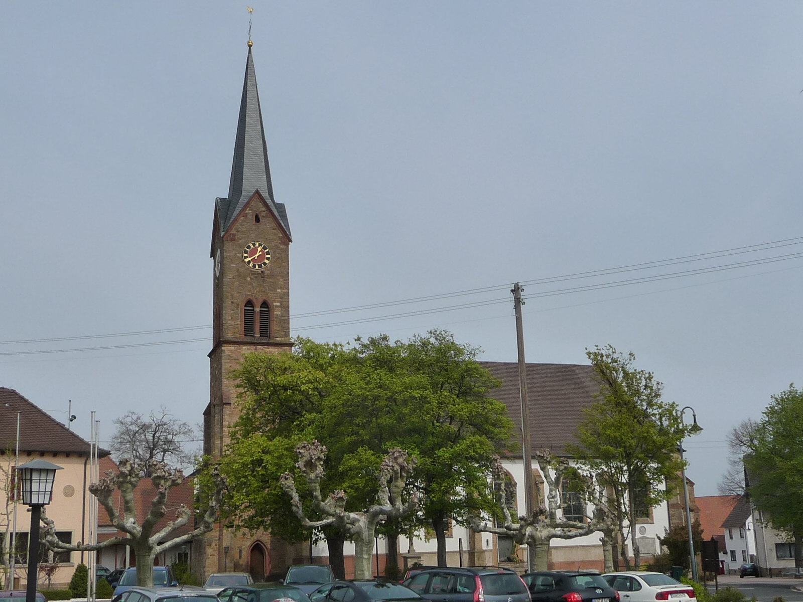 Ruppertsberg